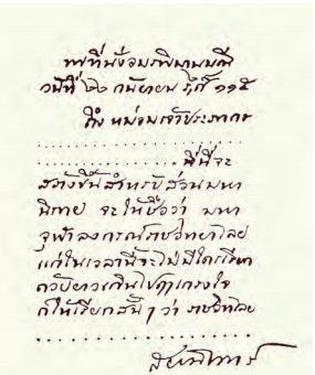 ลายพระหัตถ์